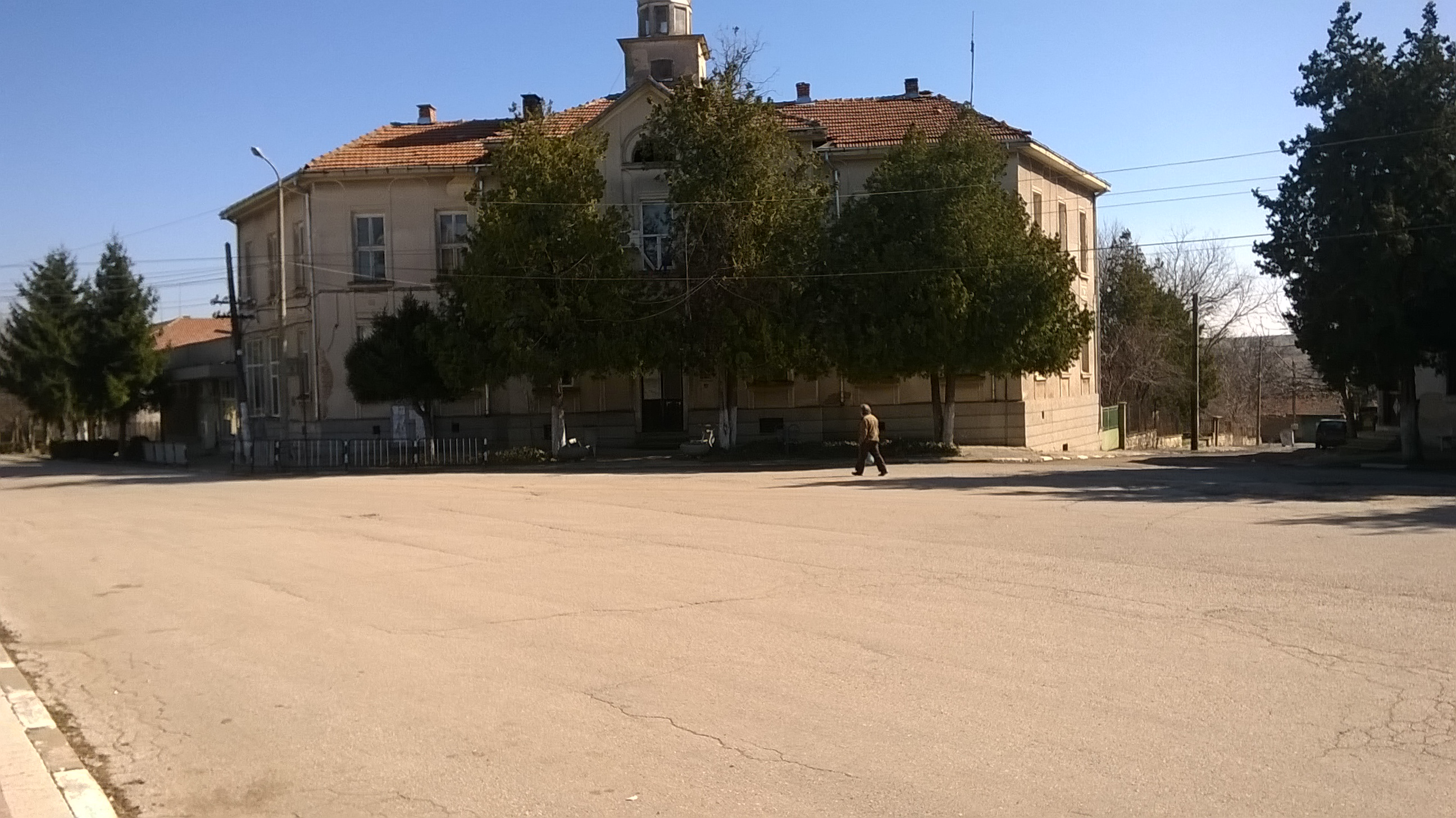 The town hall in the Bulgarian village Polski Senovetz